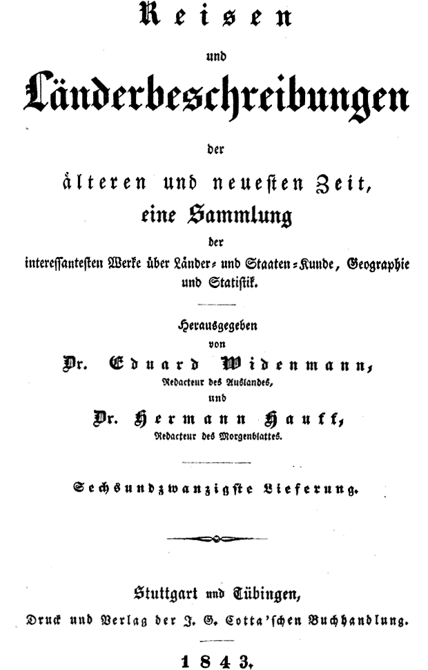 The title uses both newer and older ways of displaying umlaut.